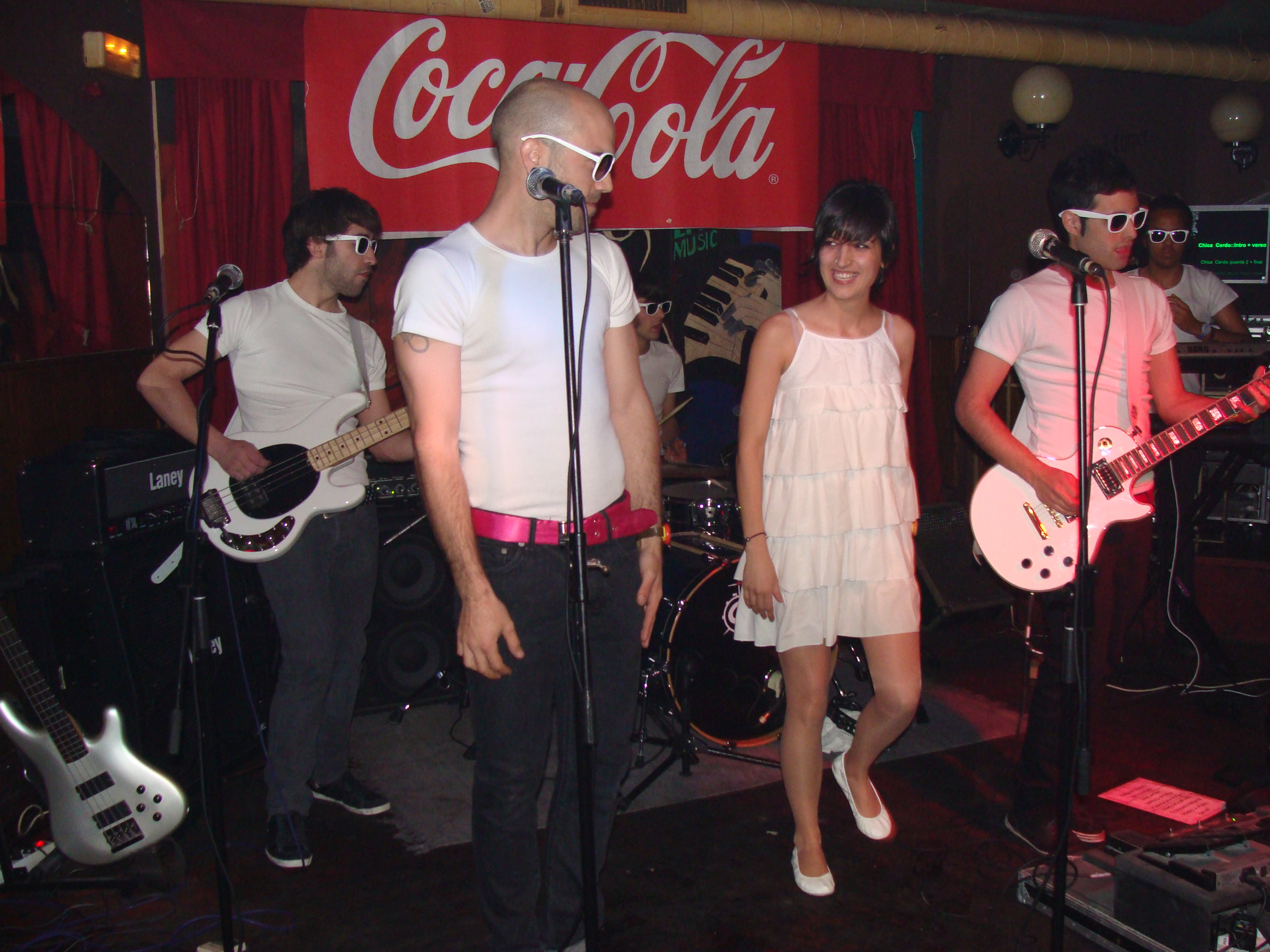 Ortofálico Chisme, winner of XI Concurso de Maquetas of Cuac FM, in Corunna, Galicia, Spain